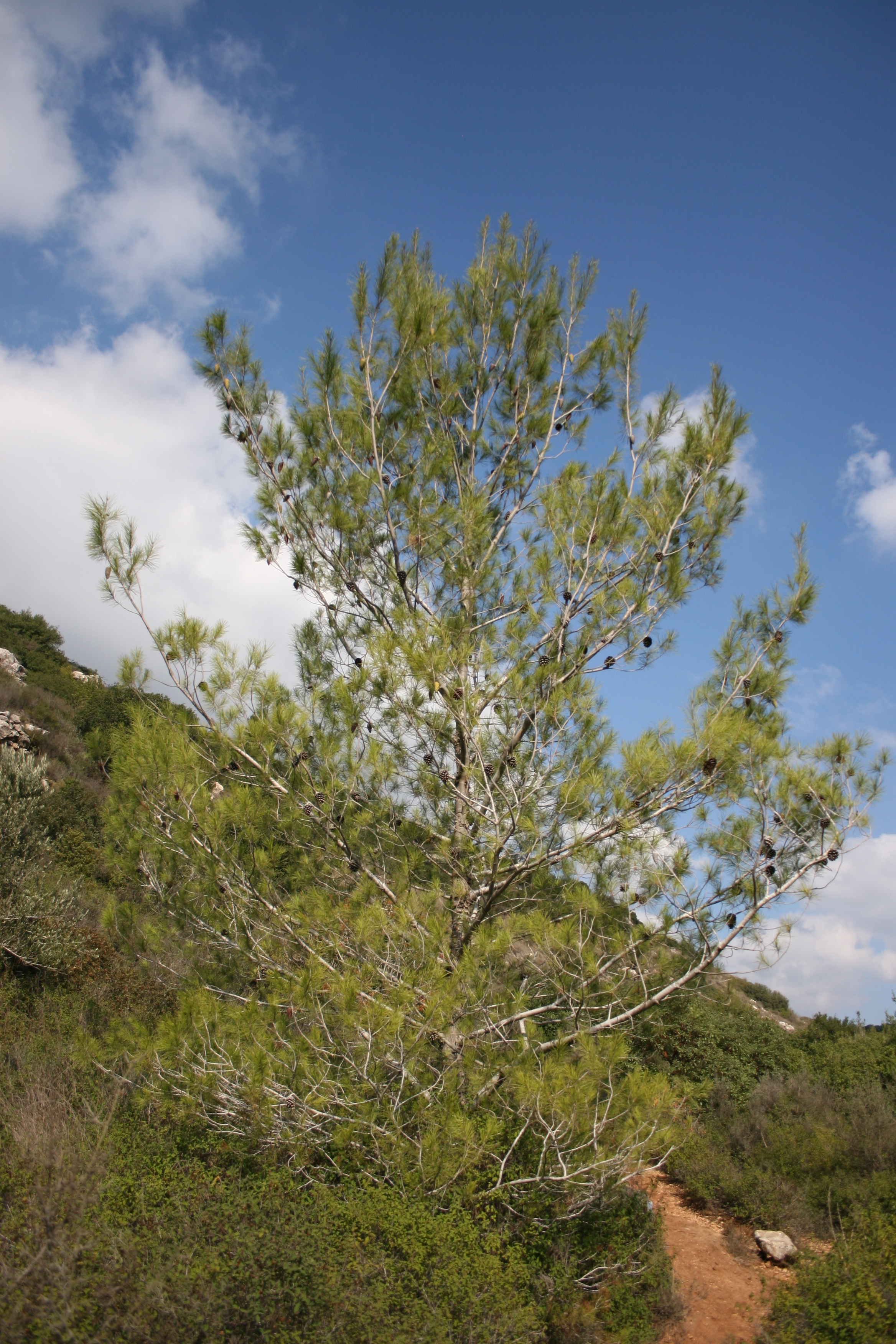 Pinus halepensis, Judean Mountains, Israel